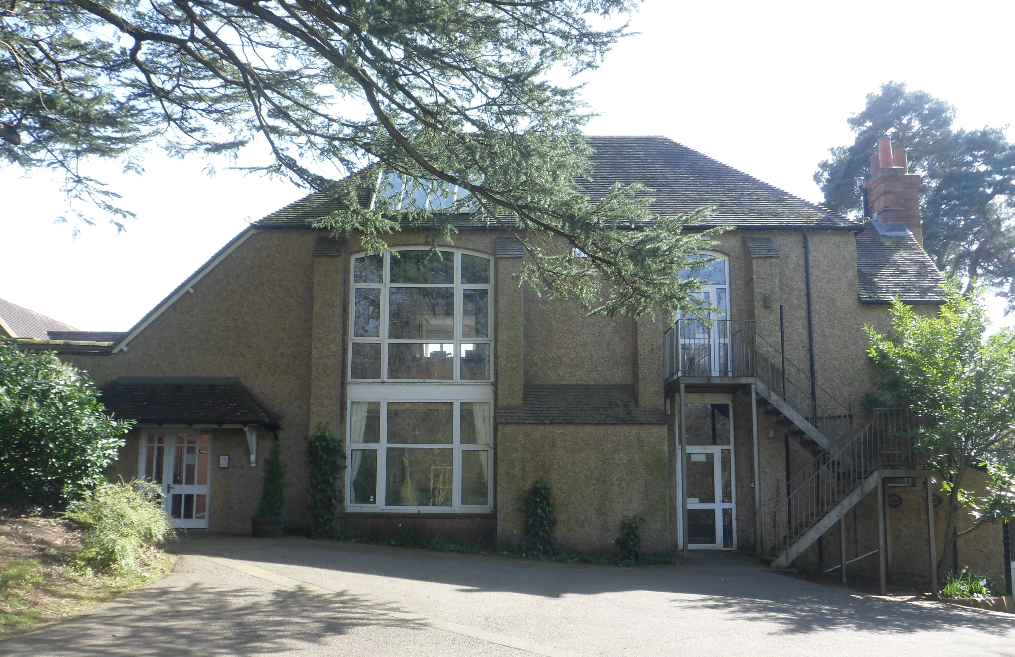 Harry Edwards Spiritual Healing Sanctuary, Burrows Lea, Shere, Borough of Guildford, Surrey, England. A Spiritualist sanctuary (registered both as a place of worship and for the celebration of marriages) within the extensive grounds of Burrows Lea House, between Shere and Peaslake.